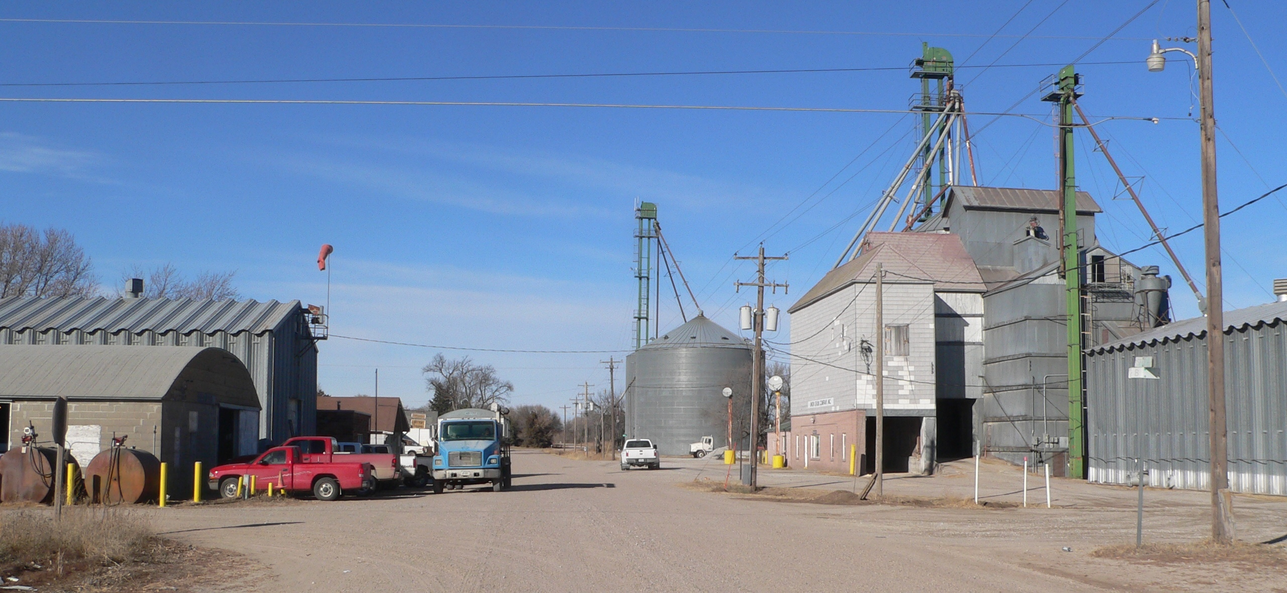 Downtown St. Libory, Nebraska: camera is facing north-northwest up Spruce Street from about B Street.